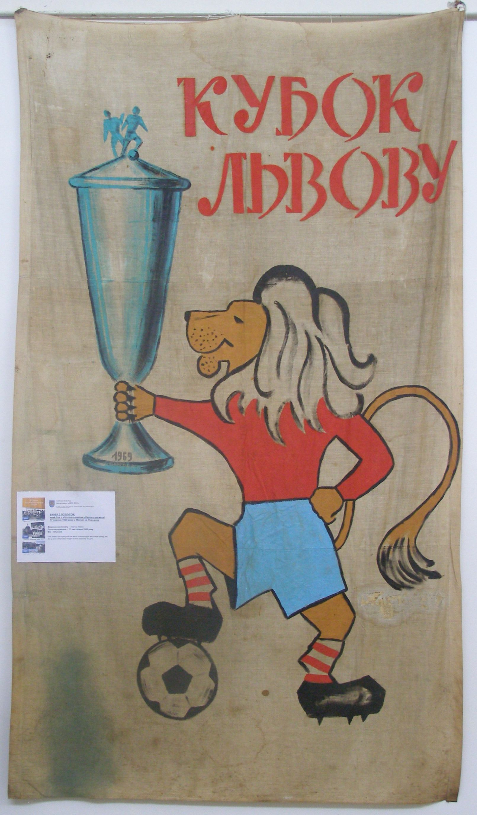 Banner of FC Karpaty Lviv suporters on USSR Cup final 1969